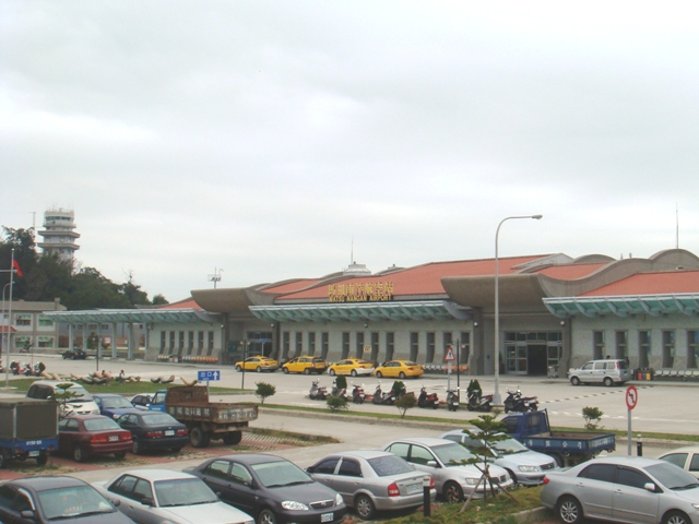 Nangan Airport, Nangan Township, Lienchiang County, Fujian Province, Republic of China